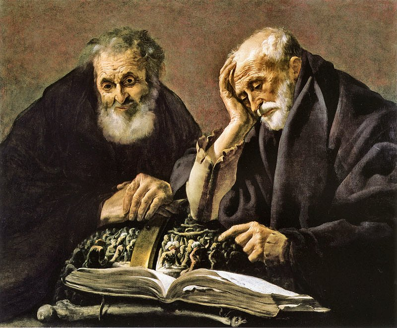 Democritus and Heraclitus by Hendrick Terbrugghen